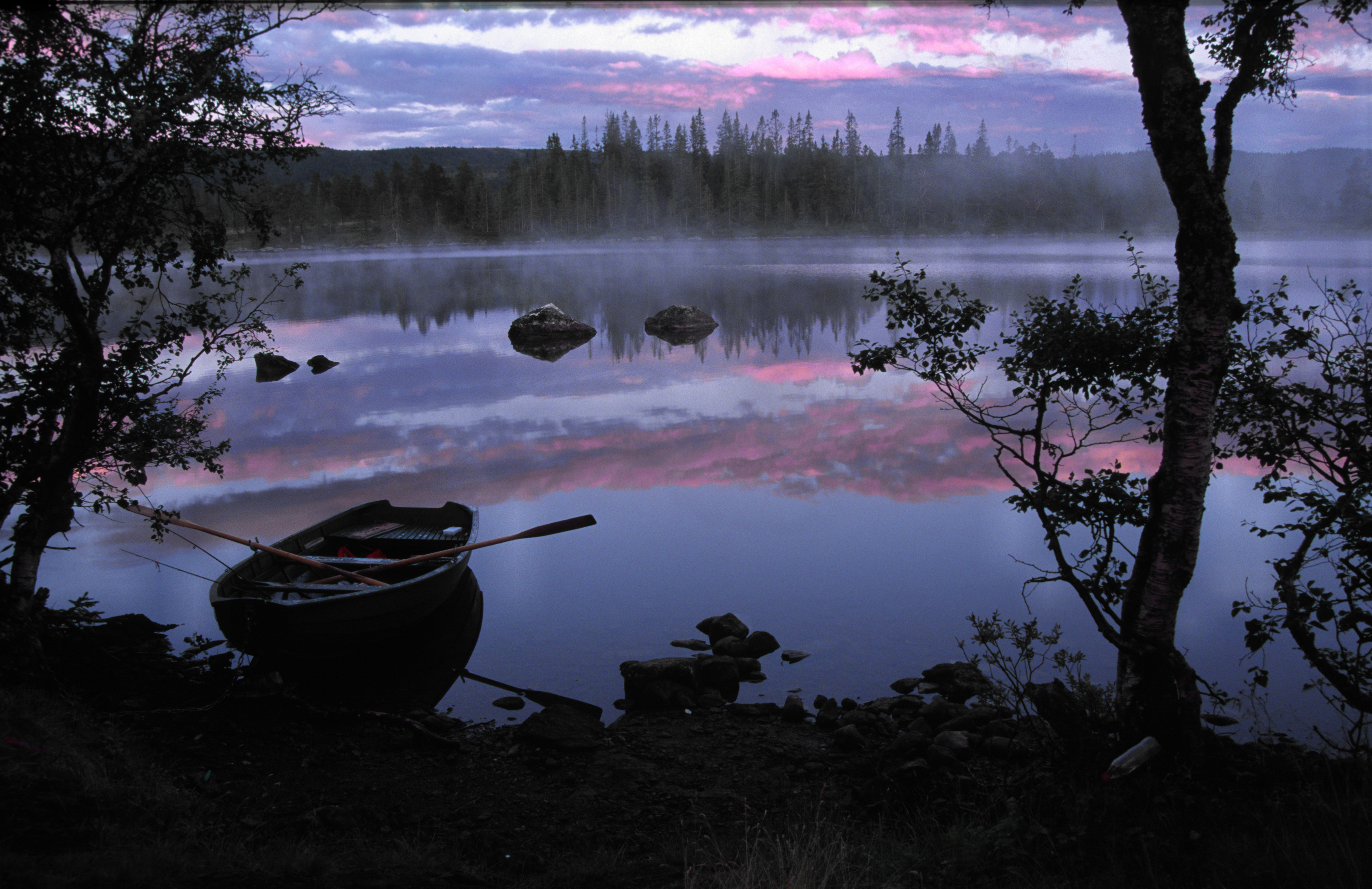 Atmosphere at Hukkelvatna